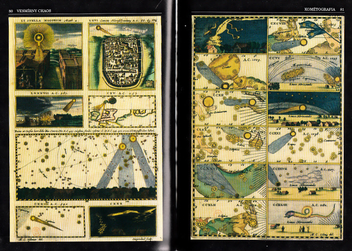 Various apparitions and evil effects of comets. Theatrum Cometicum by Stanisław Lubieniecki, 1667. — Images in the book Nebo – poriadok a chaos by Jean-Pierre Verdet, ‘Horizonty’ series, Vydavateľstvo Slovart, 1997. (Nebo – poriadok a chaos is the Slovak edition of the French book Le ciel, ordre et désordre from ‘Découvertes Gallimard’ collection, the corresponding English editions are The Sky: Order and Chaos [UK] and The Sky: Mystery, Magic, and Myth [US].)